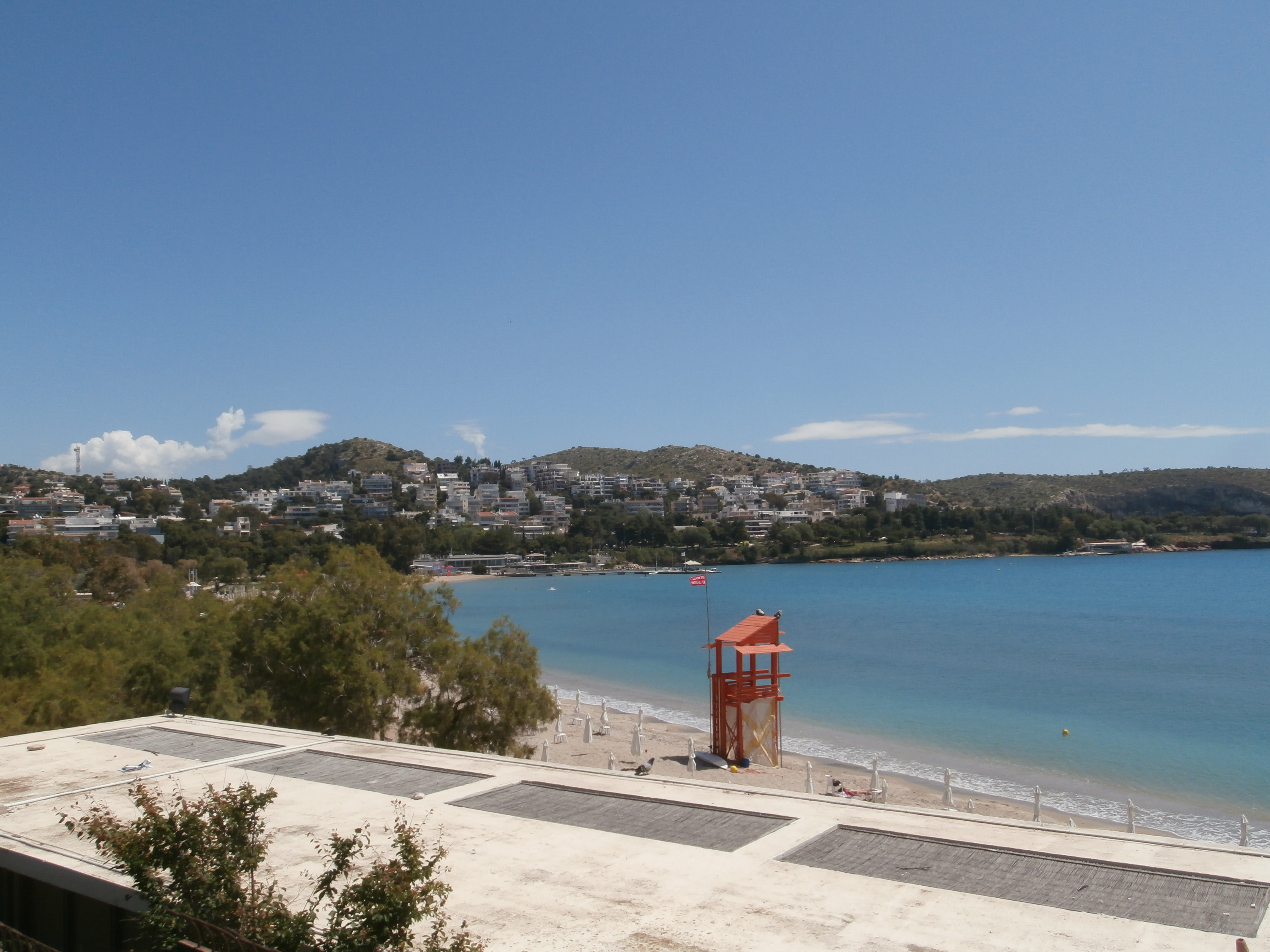 View of Vouliagmeni